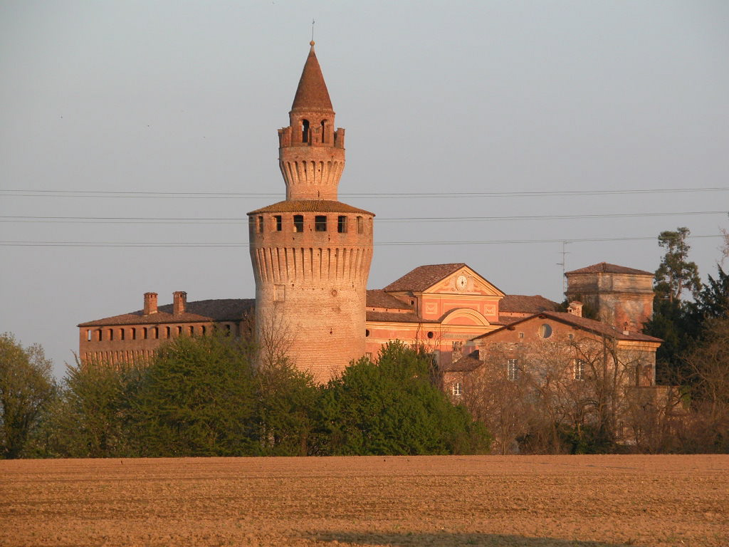 Tower of Rivalta Castle, near Piacenza, Italy